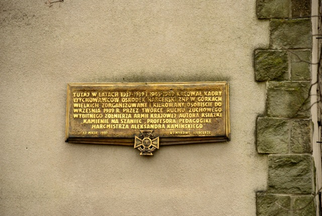 Tablica pamiątkowa Stanica ZHP Górki Wielkie